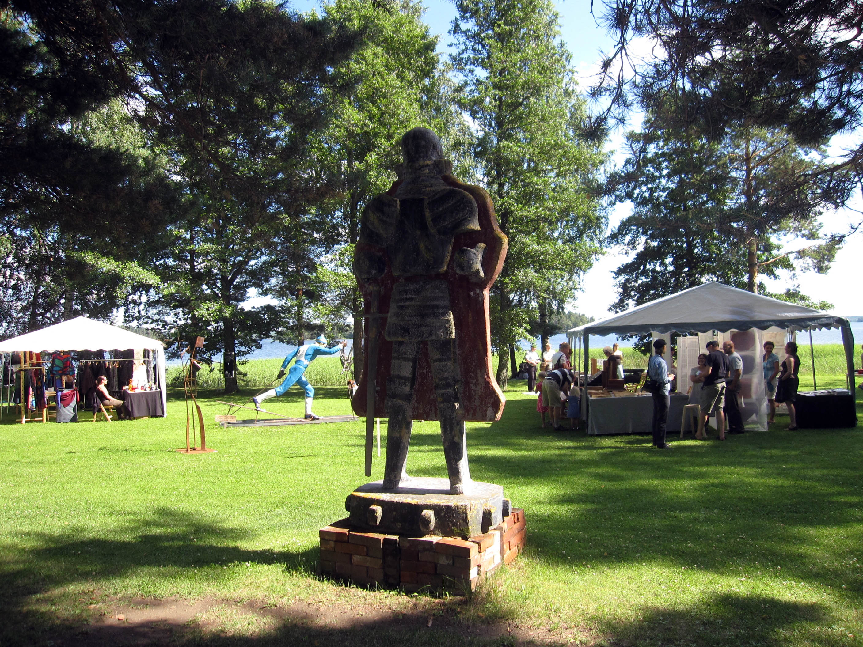 Purnu art exhibition in Orivesi Finland